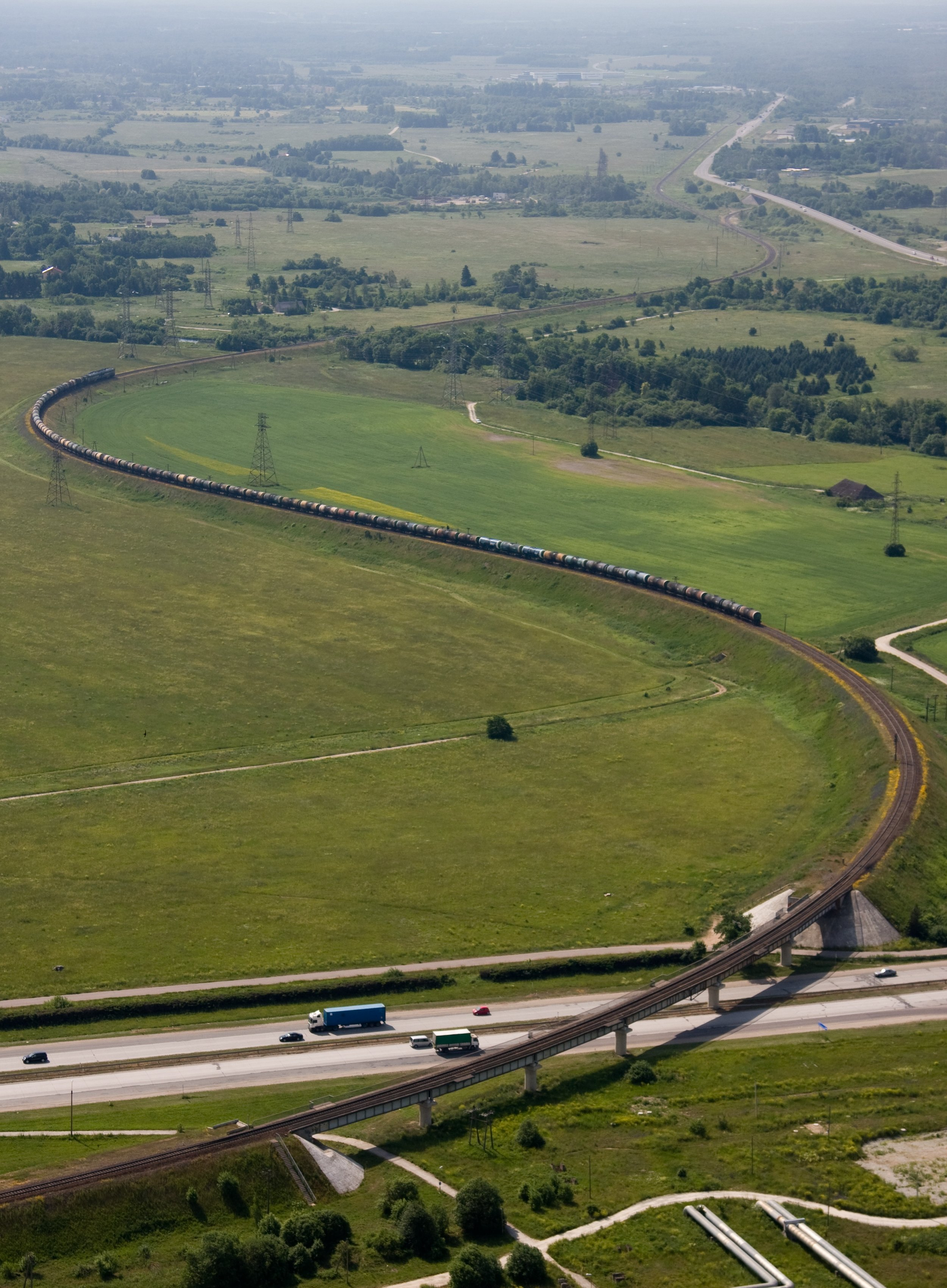 A freight train pulling 60 tank cars heading from Muuga towards Lagedi (near Tallinn, Estonia). Picture taken from top of the chimney of Iru Power Plant (h=202 m).